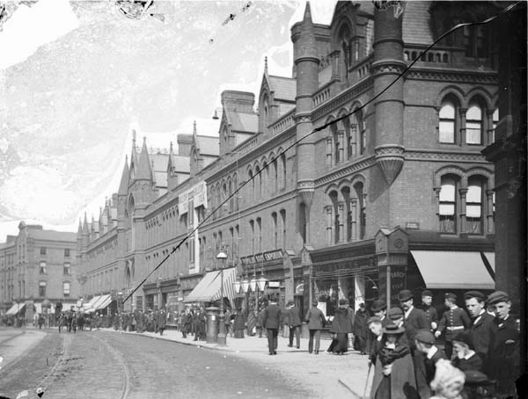 NLI Ref.: L_ROY_01667